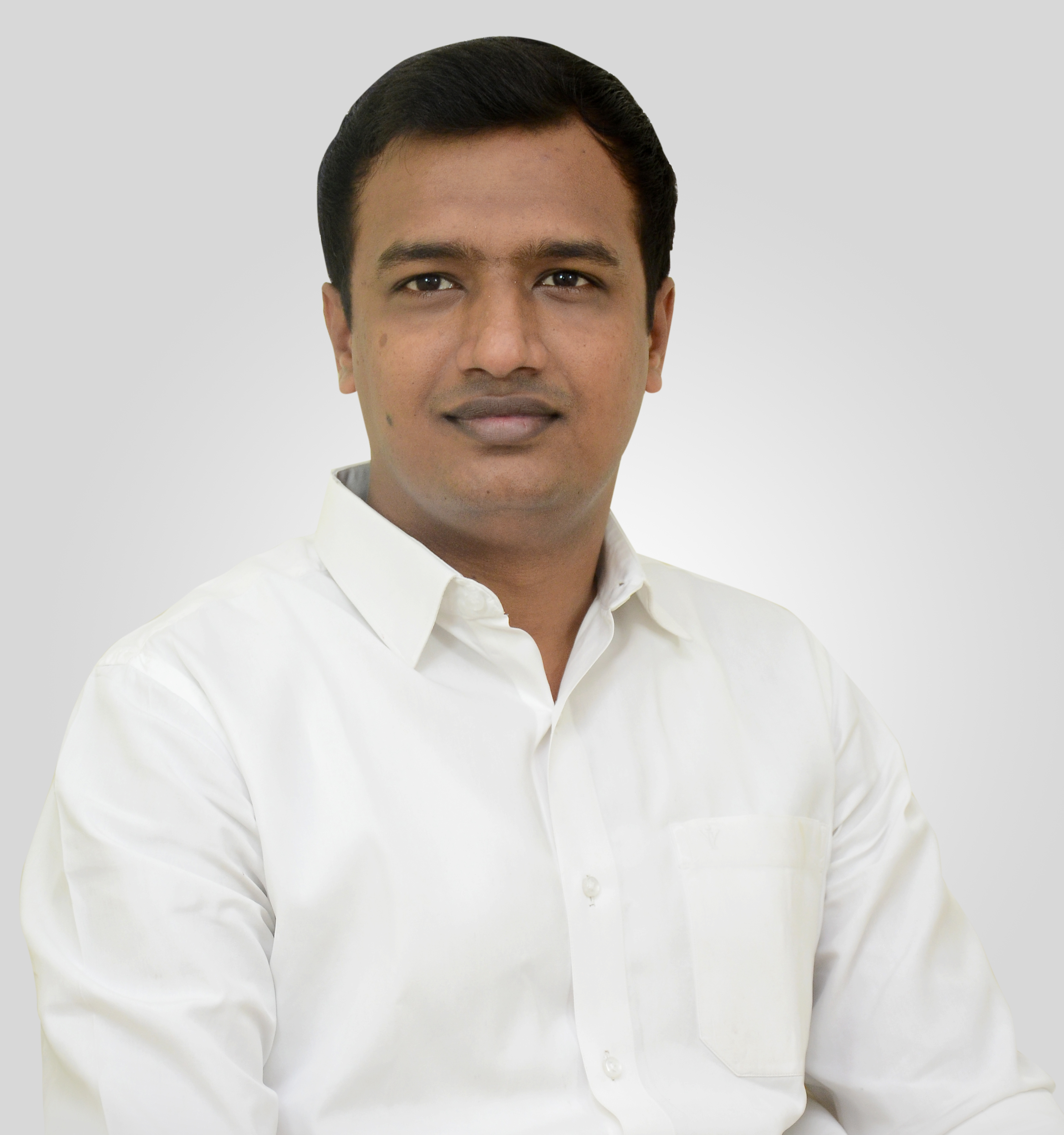 Ramachandran Govindarasu